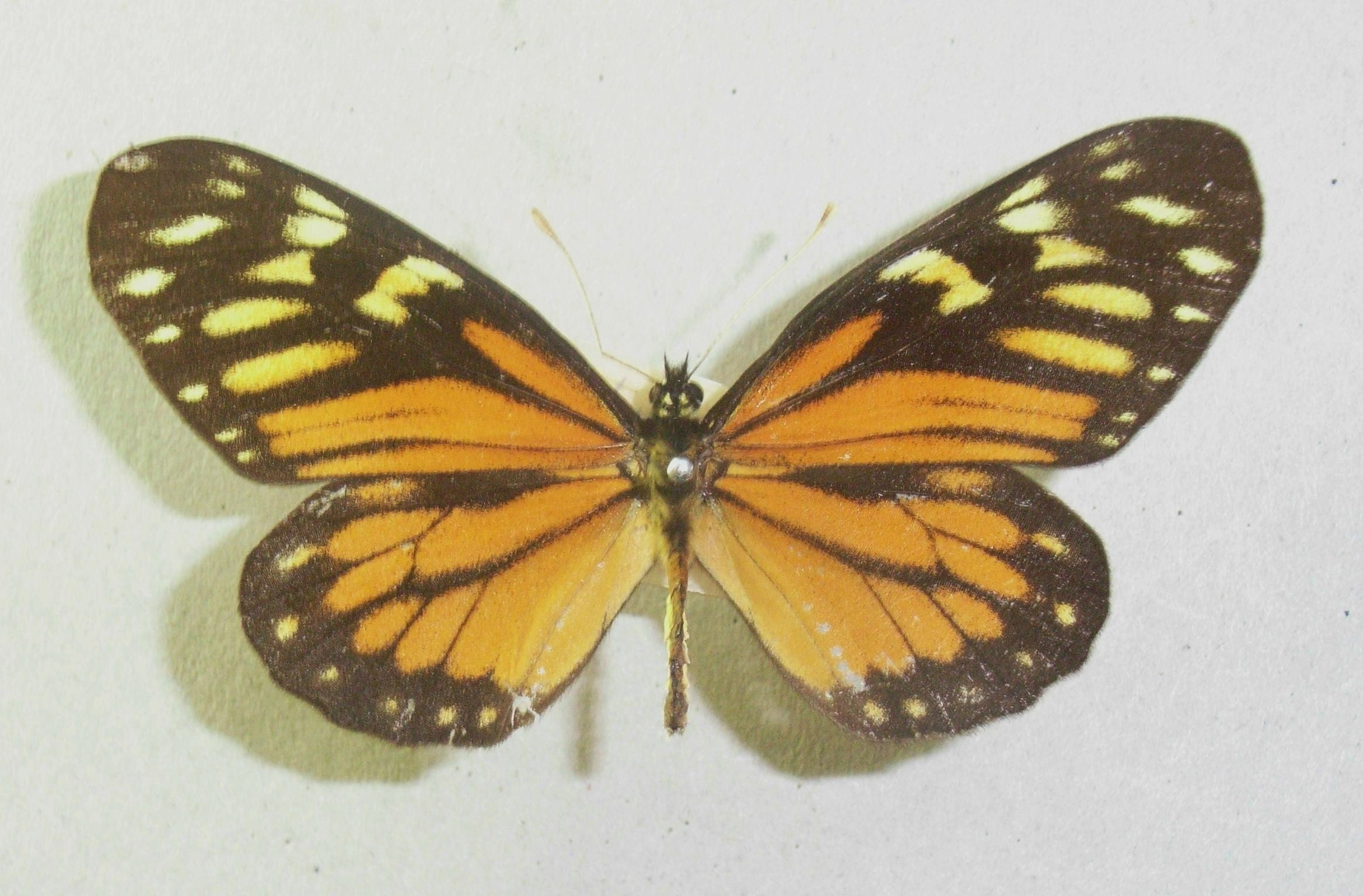 Charonias eurytele:Pierinae:Pieridae